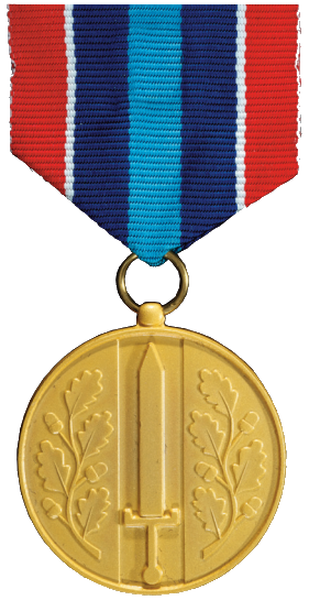 Medal for Defence Service Abroad-2012